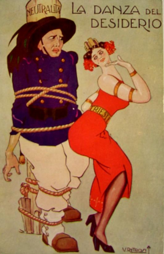 Satiric picture about Italian neutrality and Trieste